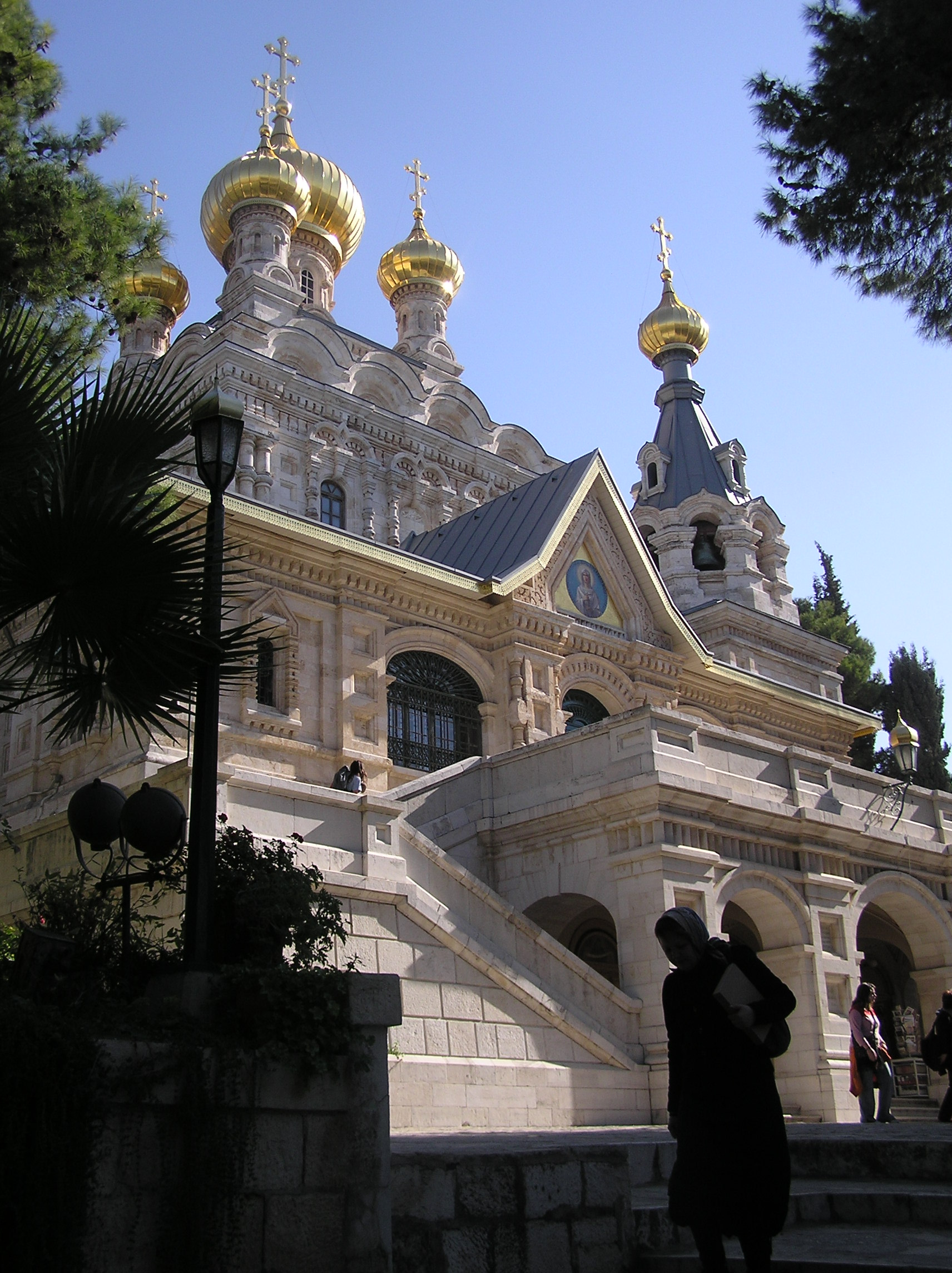 St. mary magdalene church on Mount Olives, Jerusalem, Israel